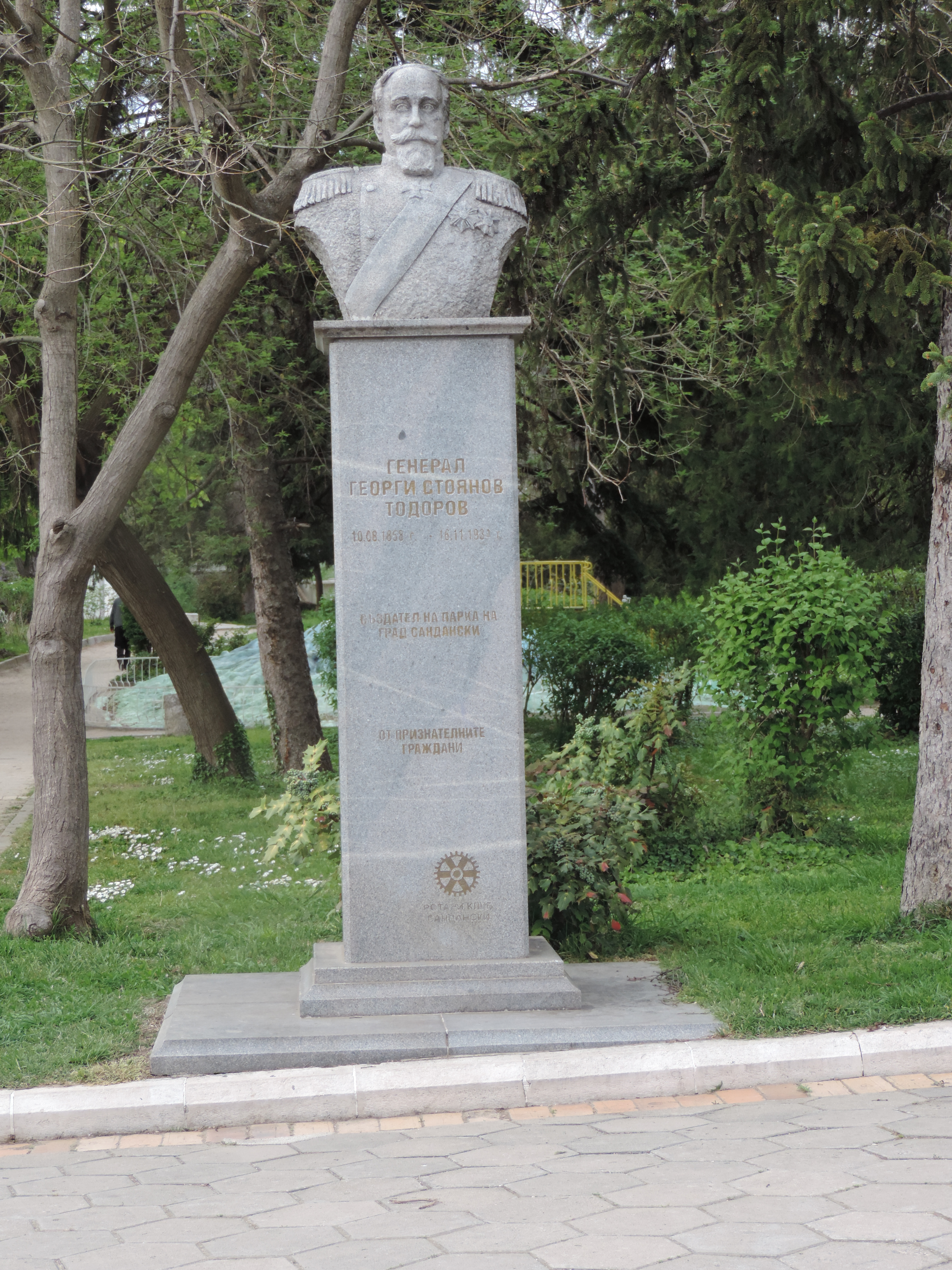 St. Vrach park, Sandanski, Bulgaria